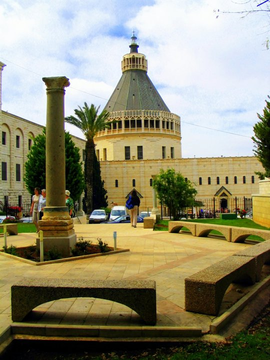 Religion in Israel